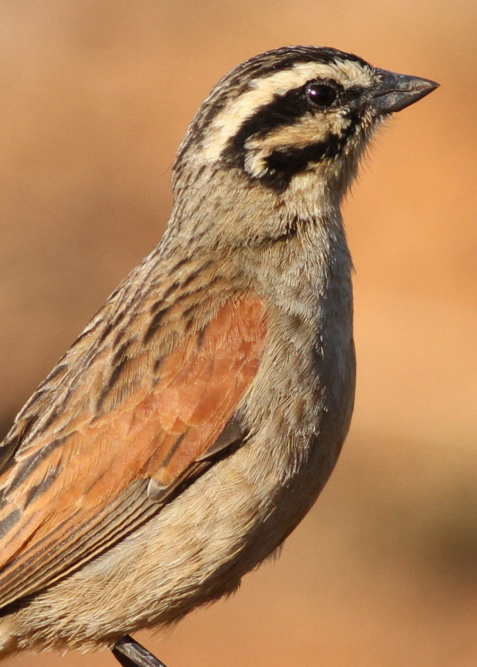 Cape Bunting, Emberiza capensis at Suikerbosrand Nature Reserve, Gauteng, South Africa